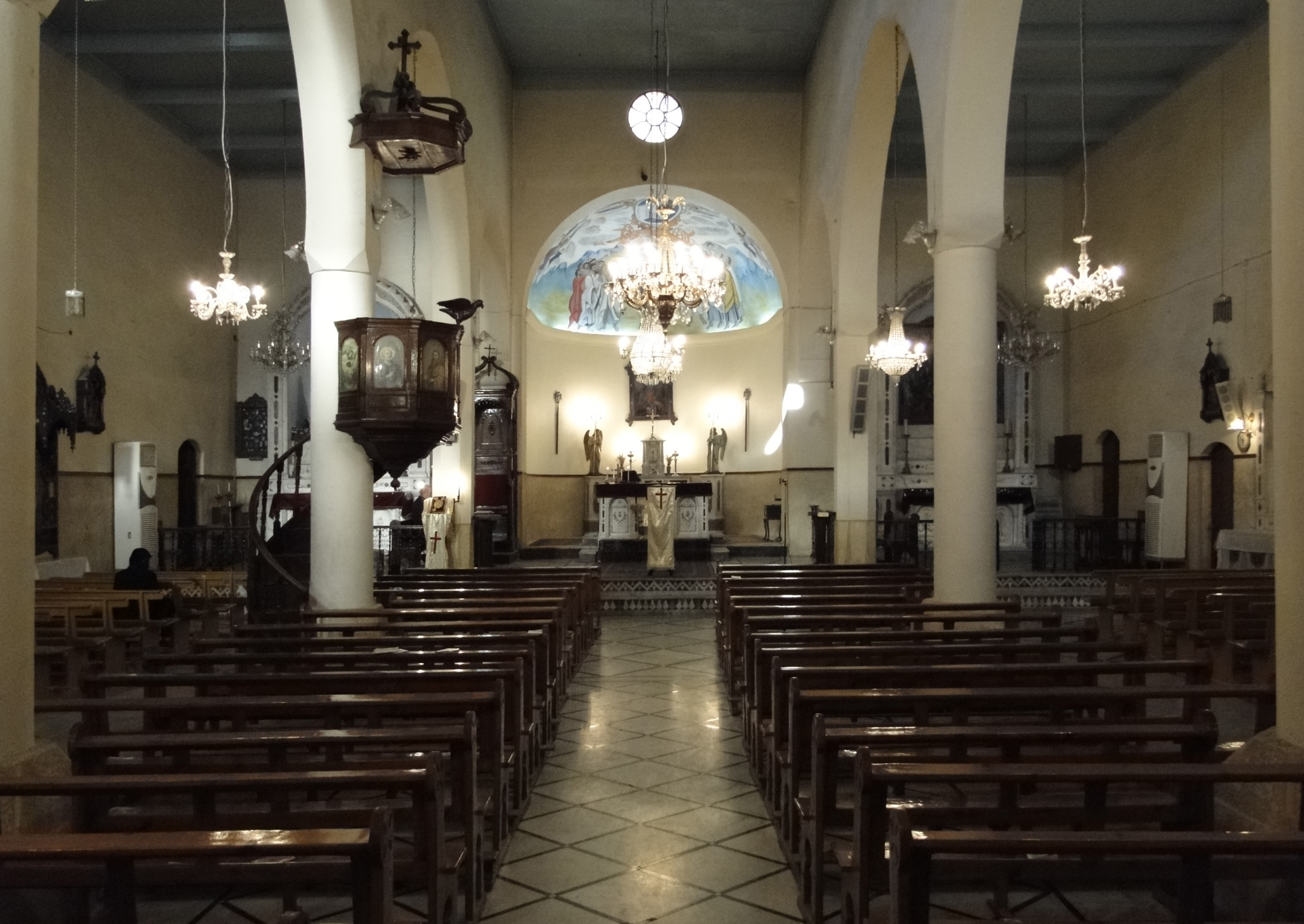 Interior of the Syriac Catholic Church in Damascus, Syria